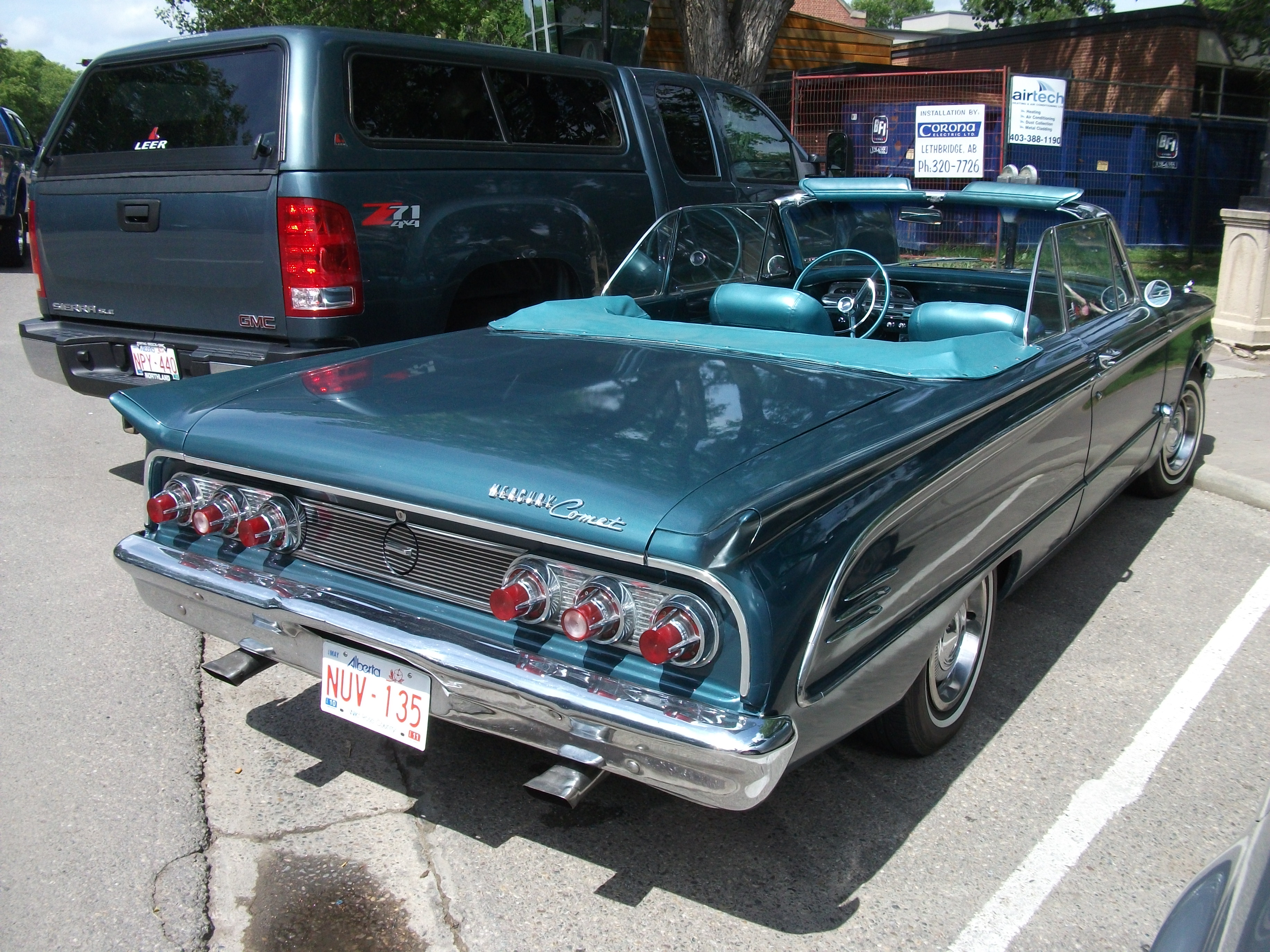 Mercury Comet Convertible in the parking lot